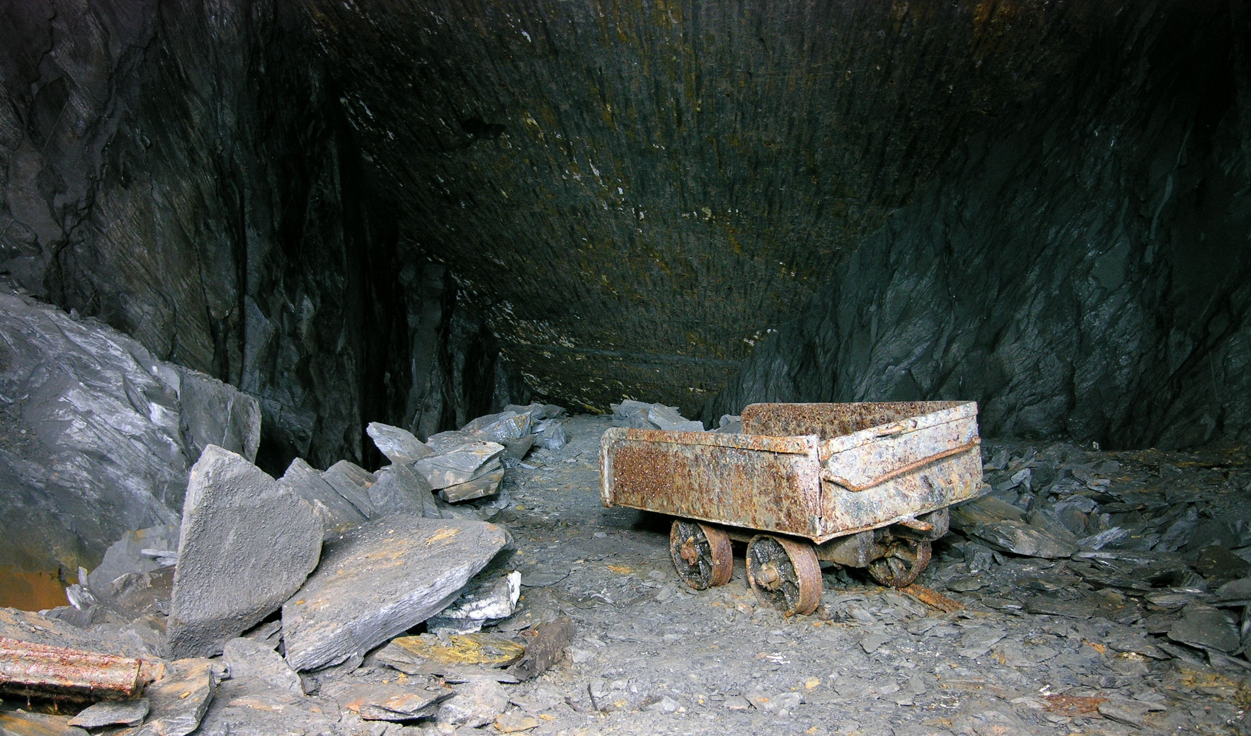 Waste truck abandoned at the top of a tip in one of the Llangollen slate mines. Picture taken by Vanoord. Such wagons would commonly be used for removing slate waste from underground. Typically, these wagons would have had double-flanged wheels to allow more movement Flexibility.